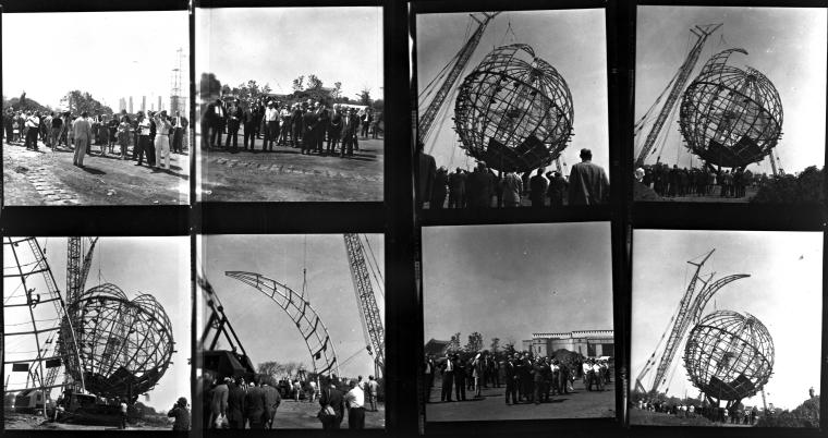 Unisphere under construction before the Second World Fair